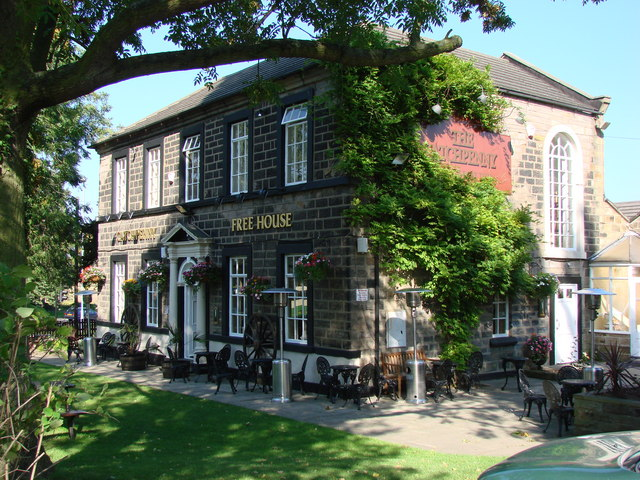 The Catchpenny Public House, Fitzwilliam.